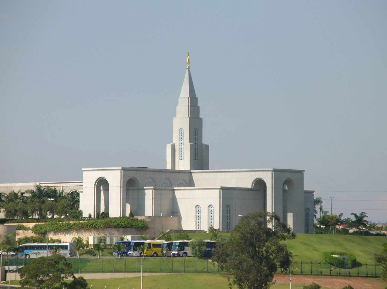 The Campinas Brazil Temple of The Church of Jesus Christ of Latter-day Saints.